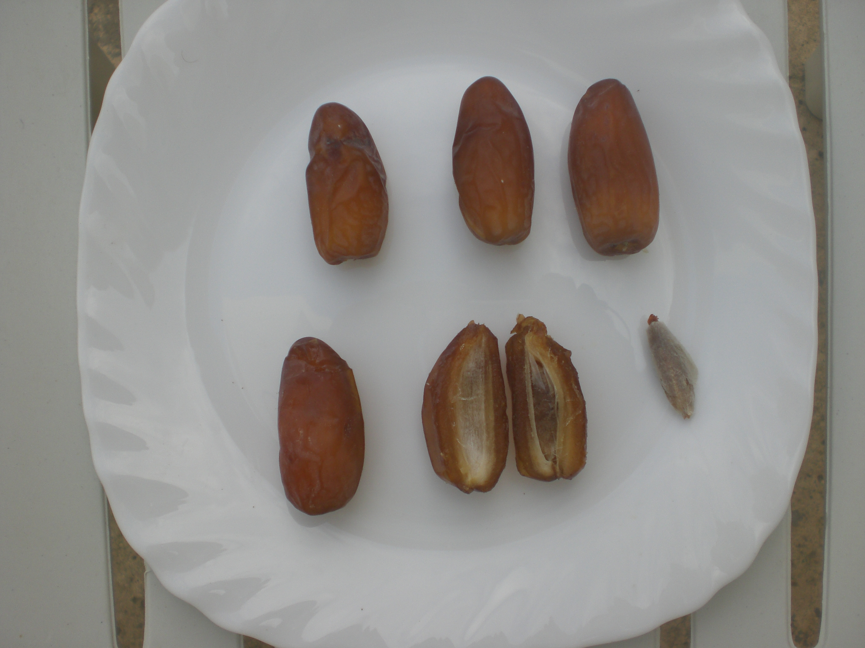 Deglet is a Tunisian date